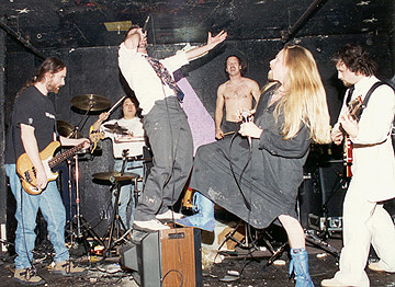 Photo of band, The Six and Violence c2004